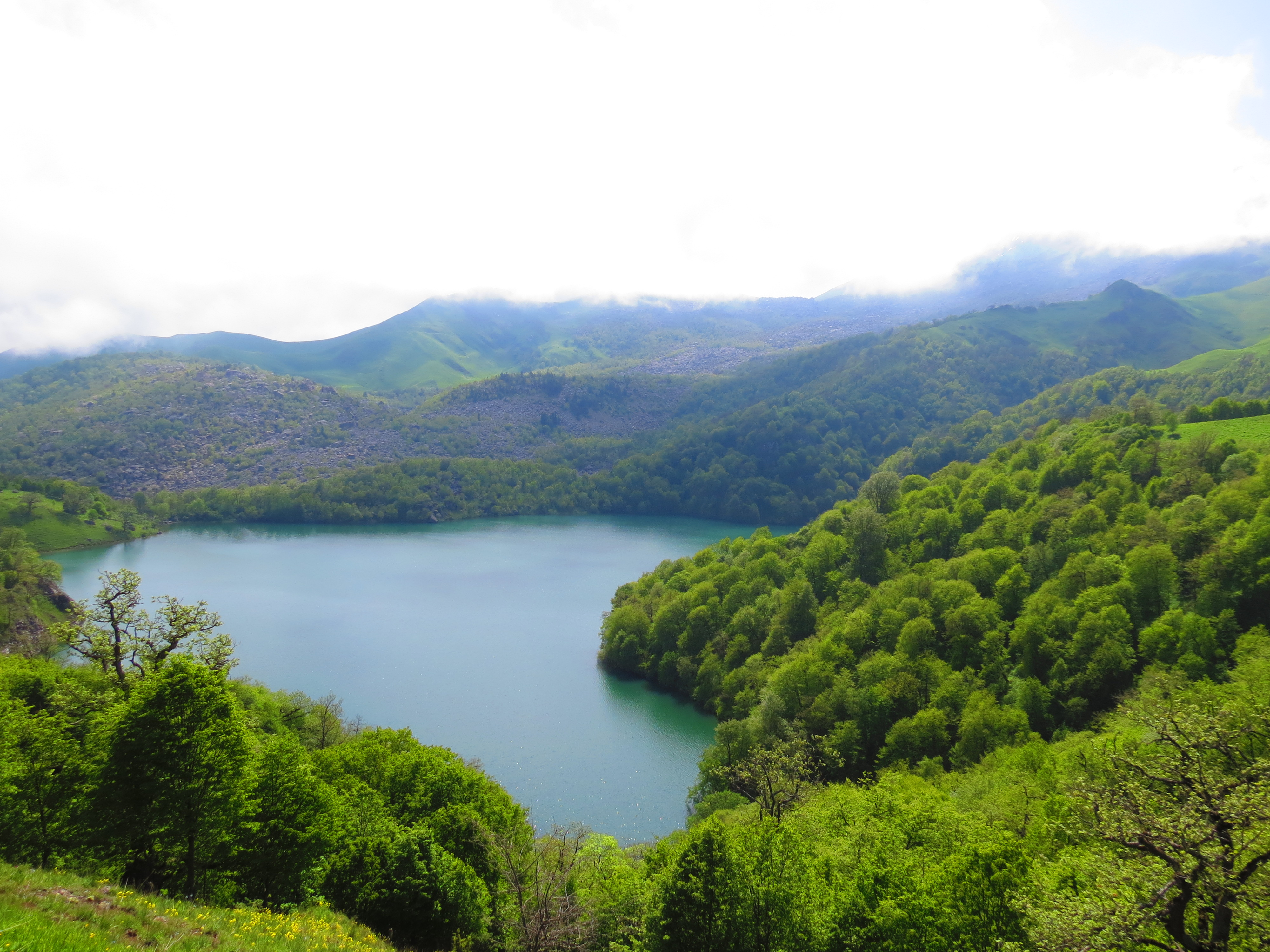 Maralgol Lake. Photo by Uzeyir Mikayilov 8